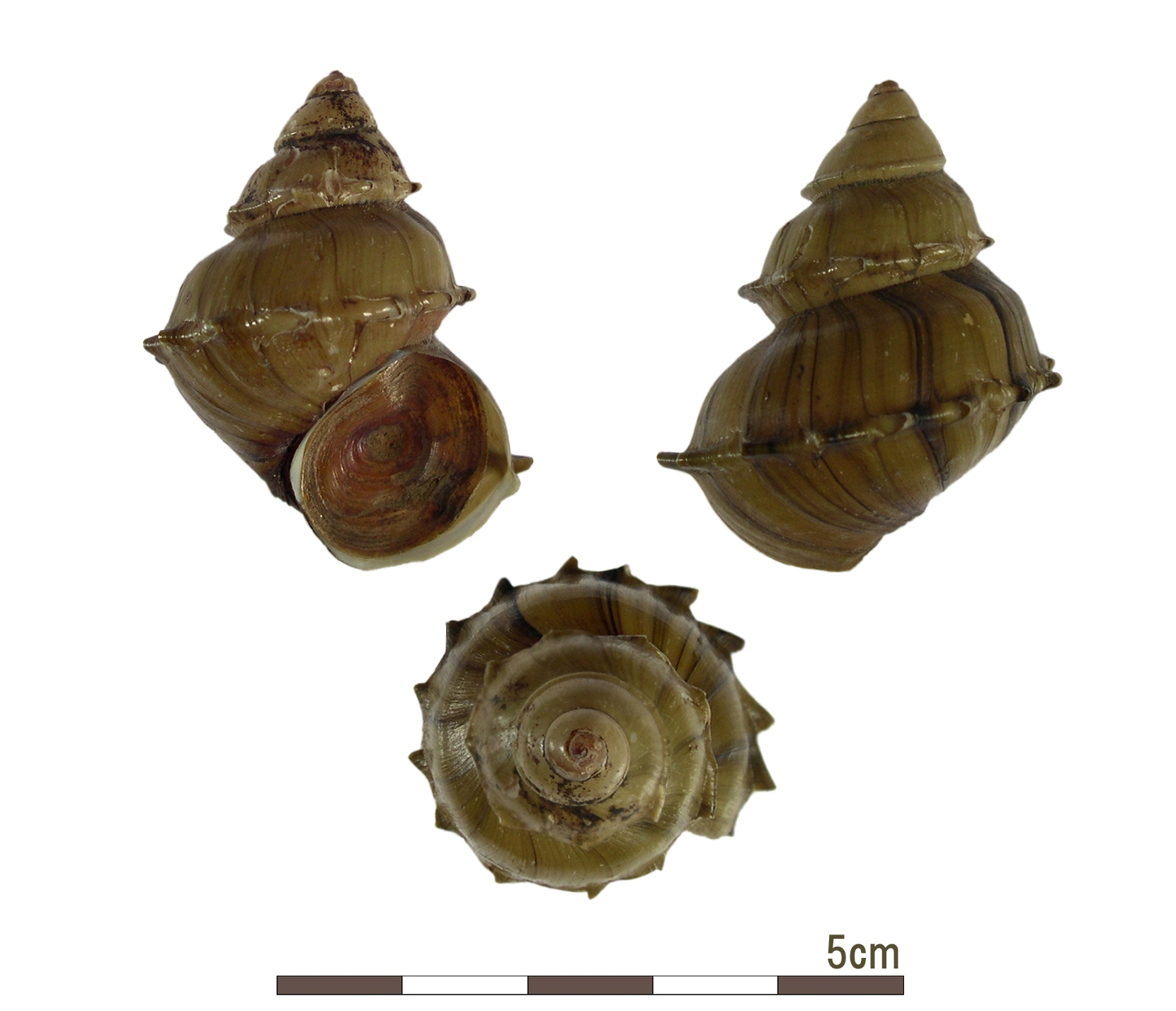 Endemic species of Lake Lanao, Mindanao, Philippines. Bartsch (1909) described this species under the name of Vivipara partelloi and wrote that 'It gives me pleasure to name this species for Maj. Joseph M. T. Partello, through whose kindness my trip to Lake Lanao was made possible'. Prashad (1928) assigned this species to the genus Dactylochlamys Rao, 1925 (=Angulyagra Rao, 1931 non Dactylochlamys Lauterborn, 1901 (Protozoa)). F. Haas (1939:95) established a new monotypic subgenus Acanthotropis Haas 1939 for this species. Loc: Lake Lanao, Mindanao, the Philippines. ja: トゲタニシ（タニシ科）の貝殻。フィリピン・ミンダナオ島のラナオ湖の固有種。 References: Bartsch, Paul. 1909. Notes on the Philippine pond snails of the genus Vivipara, with descriptions of new species. Proceedings of U. S. National Museum 37 (1709): 365-367. pl.34. Haas, Fritz, 1939. Malacological notes. Zoological series of Field Museum of natural history 24(6): 93-103.[1] Prashad, B., 1928. Recent and fossil Viviparidae. A study in distribution, evolution and palaeogeography. Memoirs of the Indian Museum 8 (4): 153-252, pl.19.